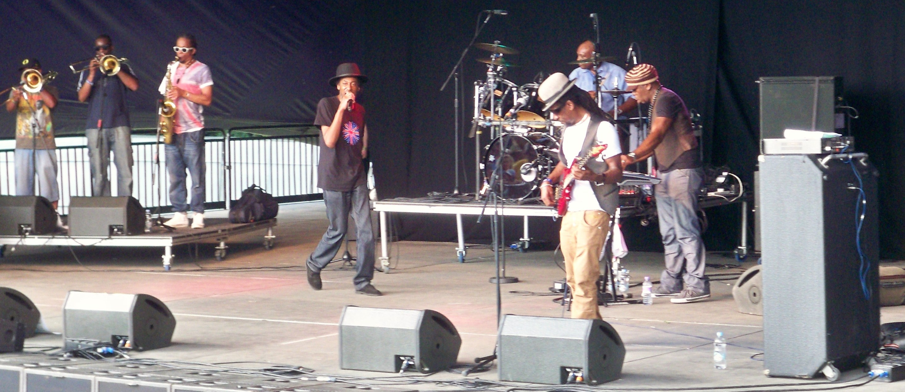 Aswad, playing live at Magic Summer Live July 2013.